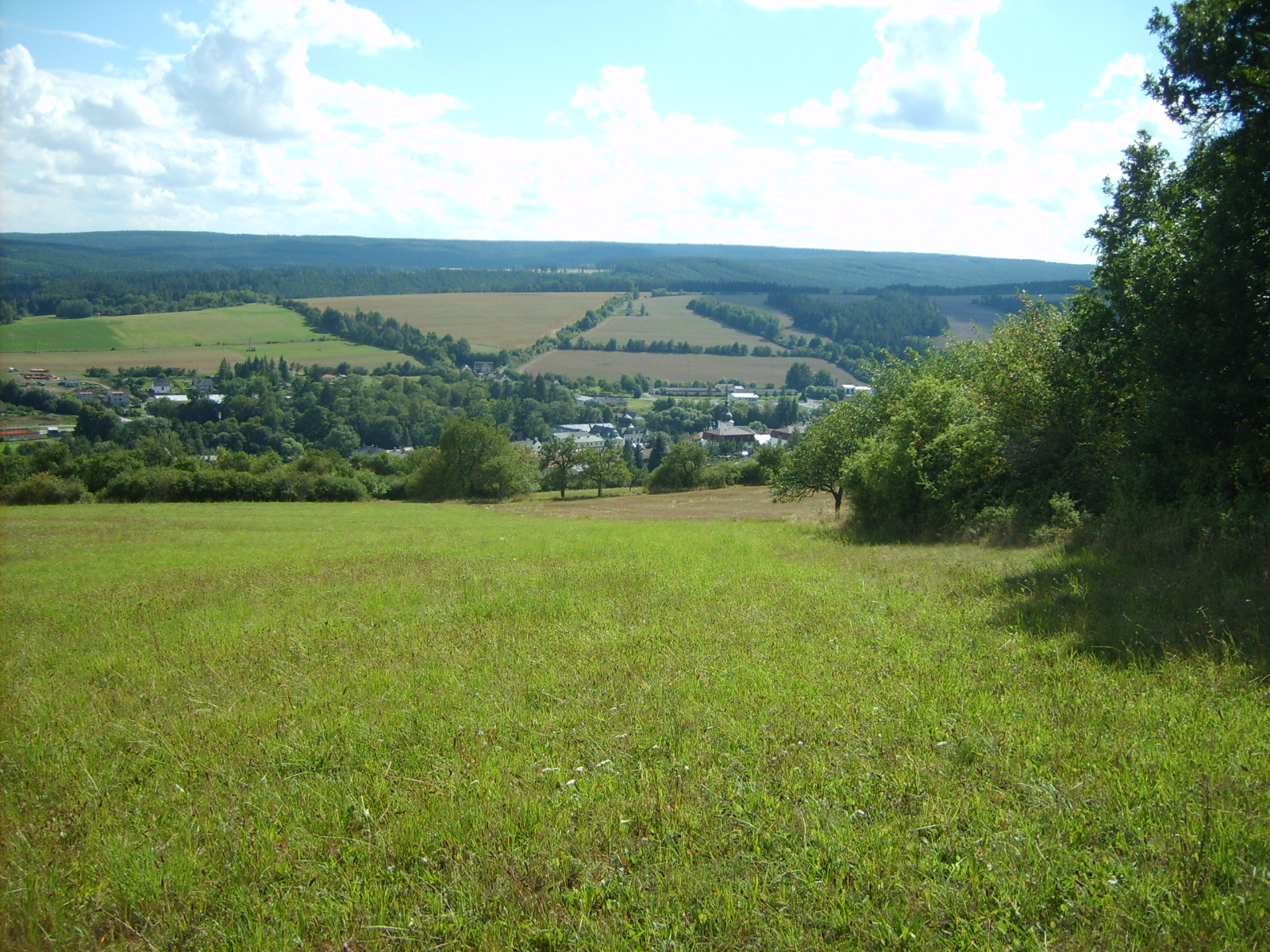 View from Chlumská hora to Manětín town